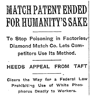 News report on patent release by Diamond Match Co.